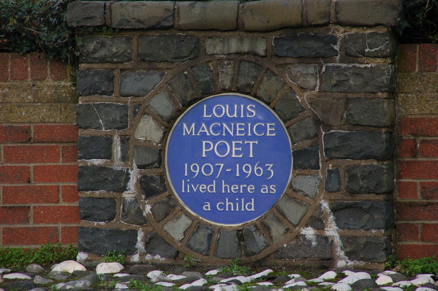 Louis Macneice plaque, Carrickfergus. The poet Louis Macneice lived in the North Road, Carrickfergus - his father was rector of St Nicholas's Church. The site is now occupied by sheltered housing. This plaque is at the entrance to the Macneice Fold. For more information He was buried at Christ Church, Carrowdore 437068.